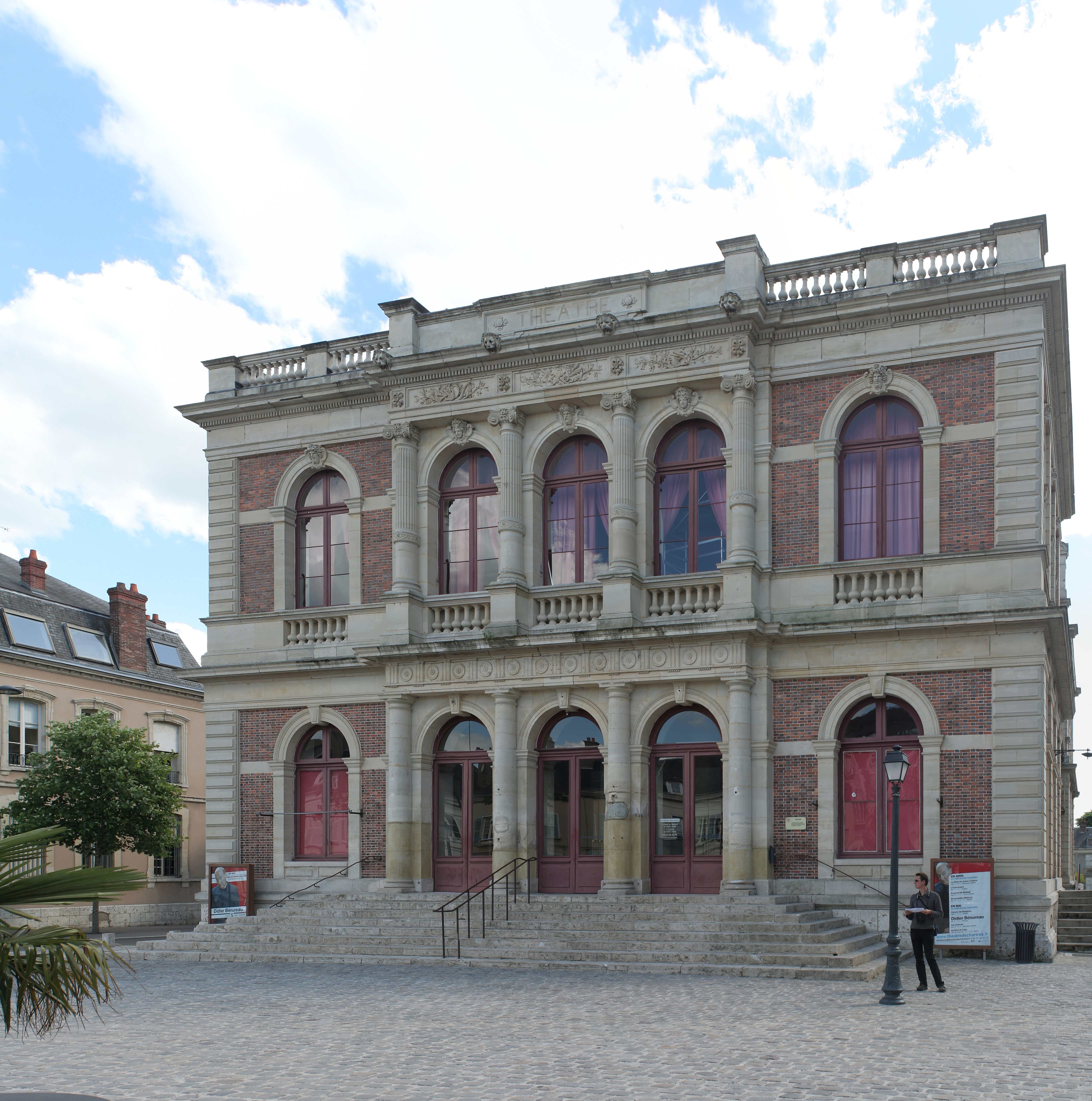 Theatre of Chartres, main facade.